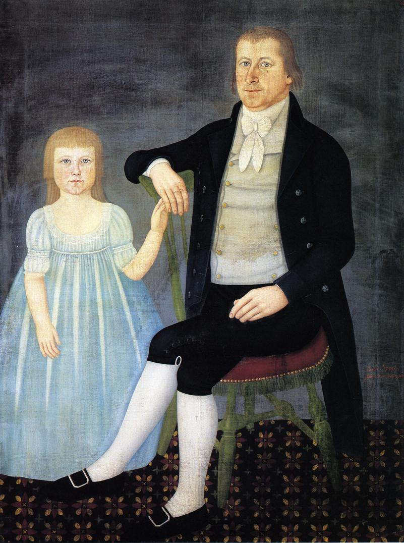 "Comfort Starr Mygatt and HIs Daughter Lucy," by American artist John Brewster Jr. Oil on canvas.